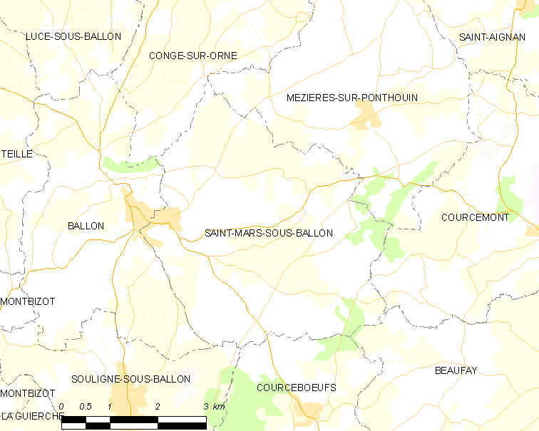 Map of French municipality